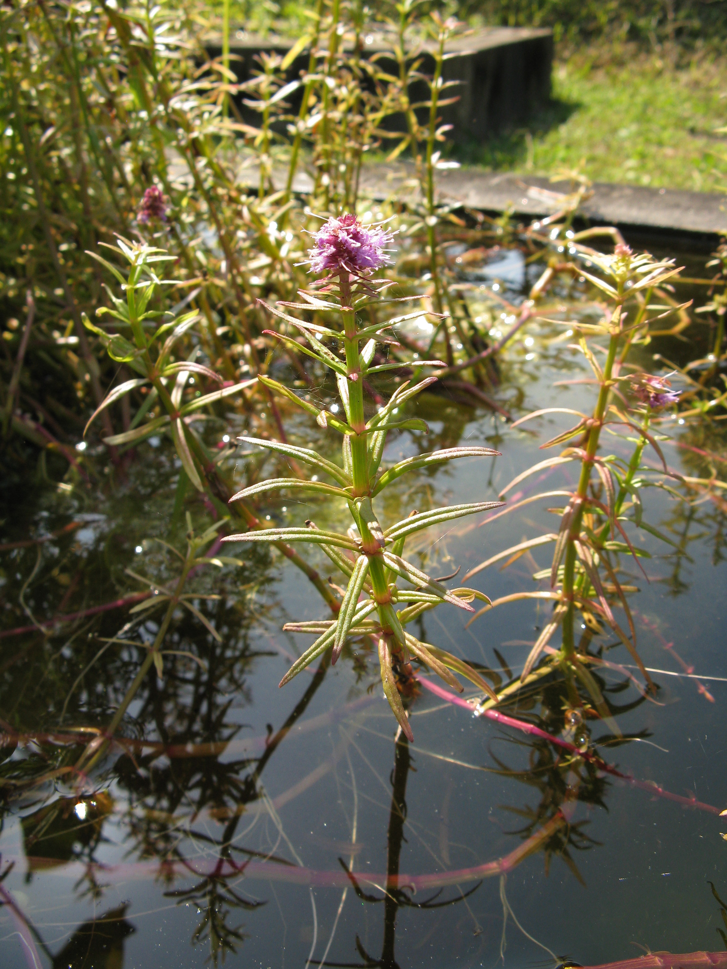 Scientific name Pogostemon yatabeanus